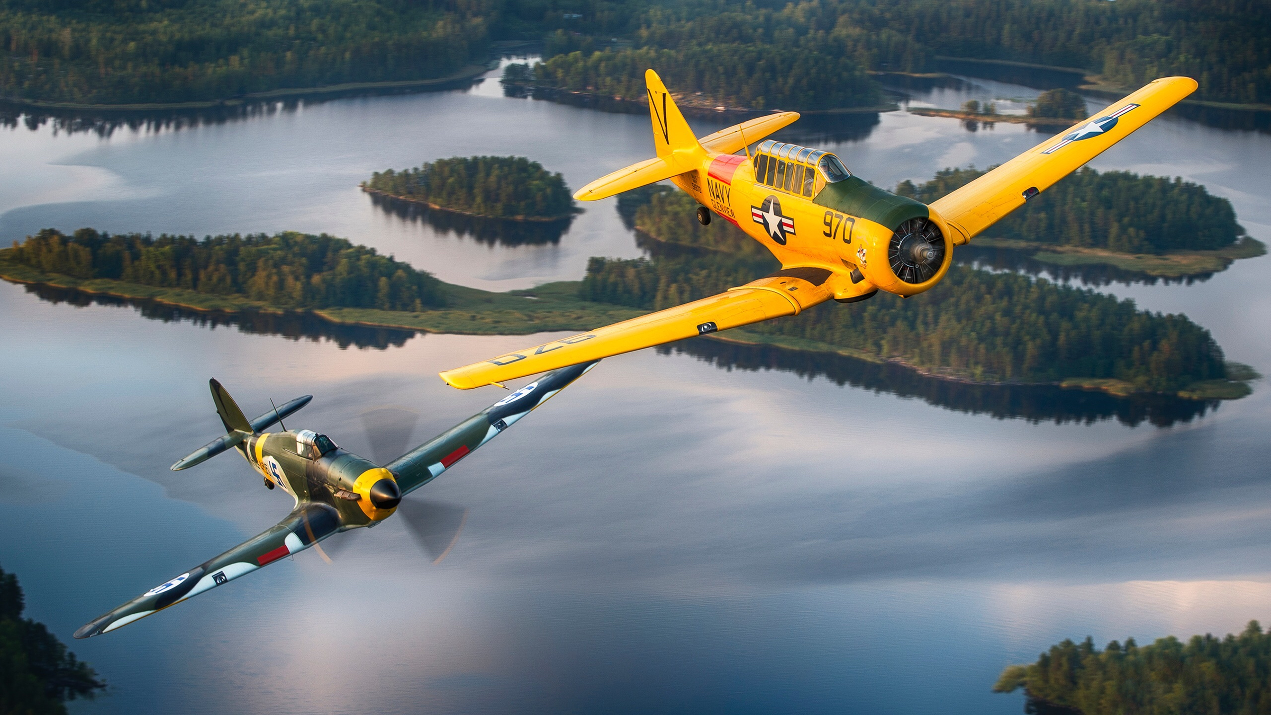 Finnish Air Force Hawker Hurricane warbird and T-6 Texan warbird in flight over Finland